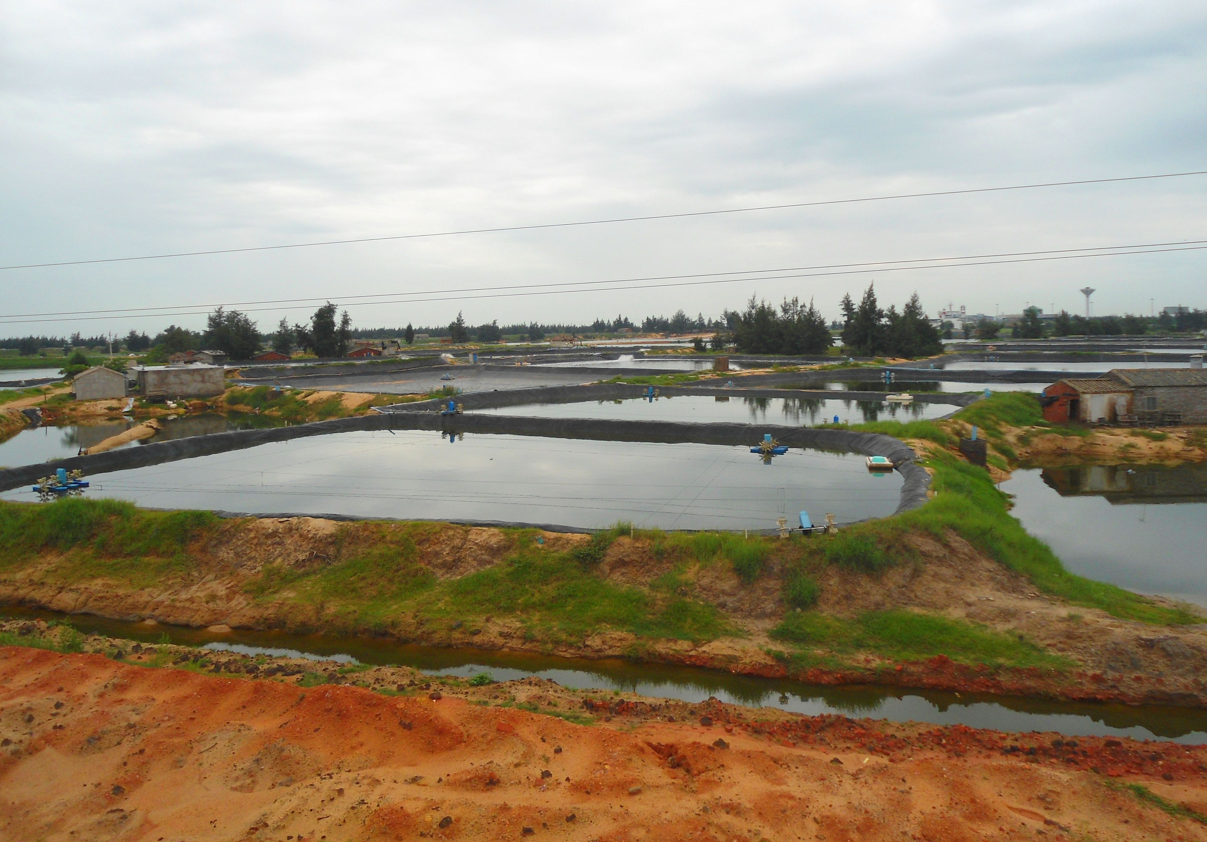 Fish farms in Chengmai County, Hainan Province, China